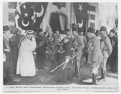 Wilhelm II visiting Istanbul in 1917.